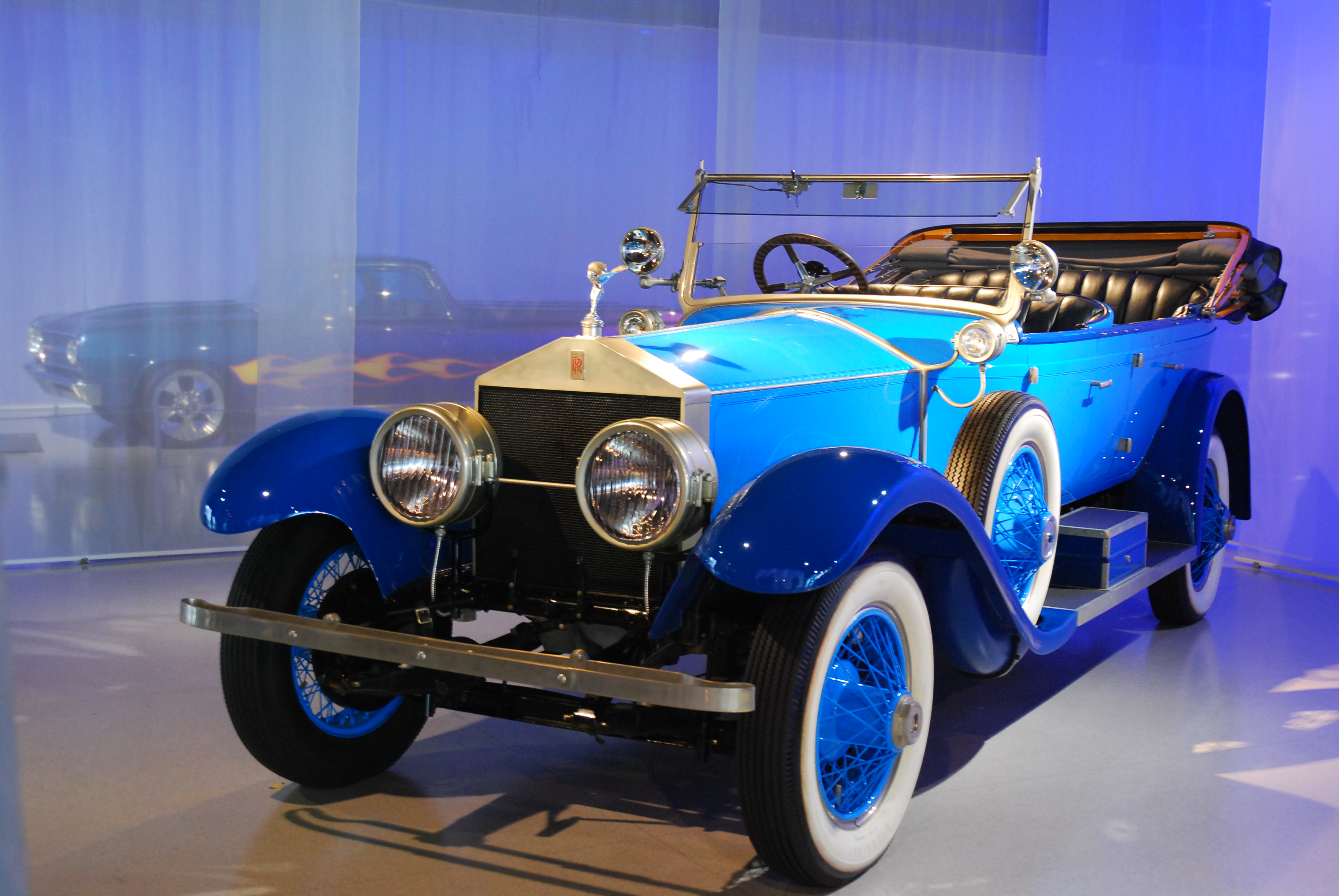 1923 Rolls-Royce Ghost, Shanghai Automobile Museum